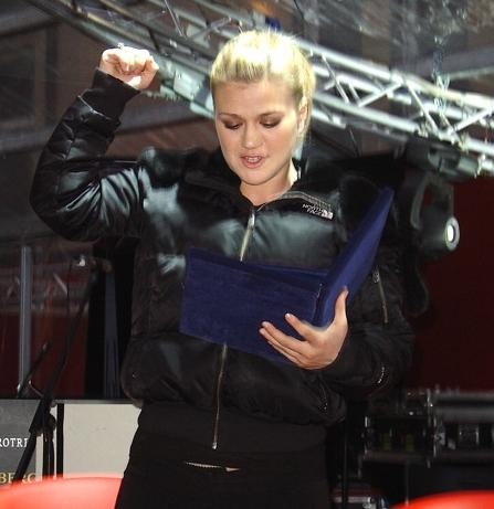 Kelly Clarkson at a press conference for the 2006 Winter Olympics.